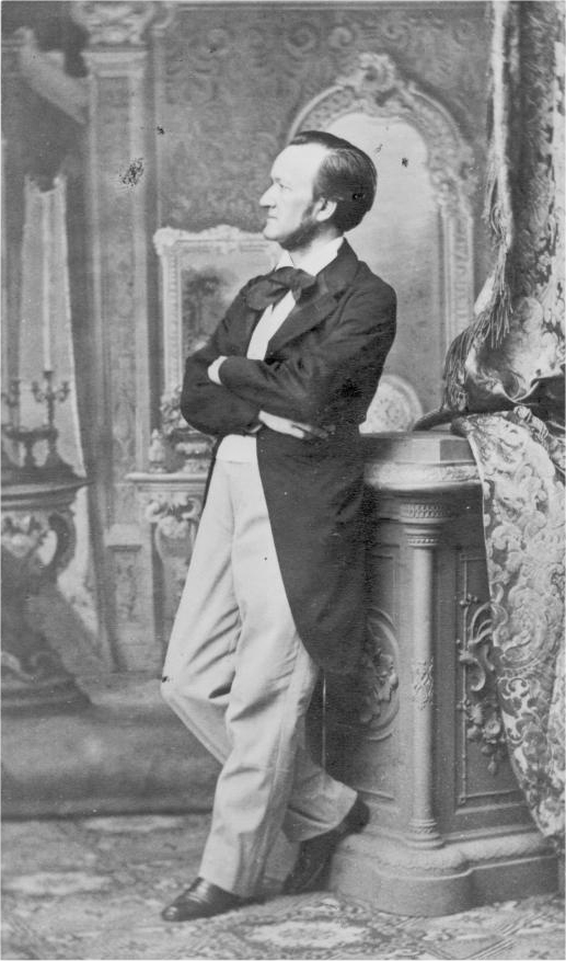 Richard Wagner, german composer